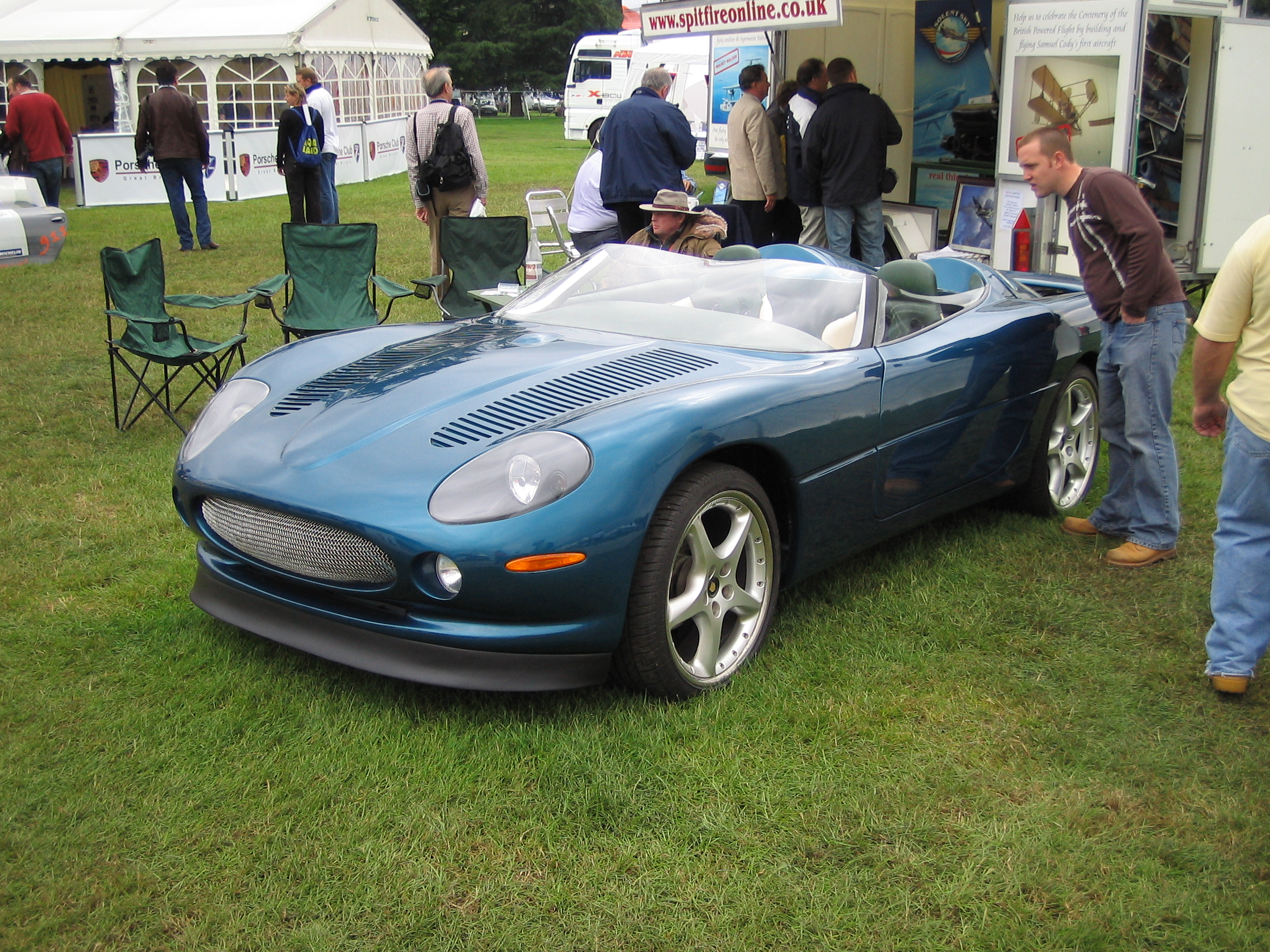 Jaguar XK 180 concept, one of two built. This one wears 20 inch BBS Detroit wheels.